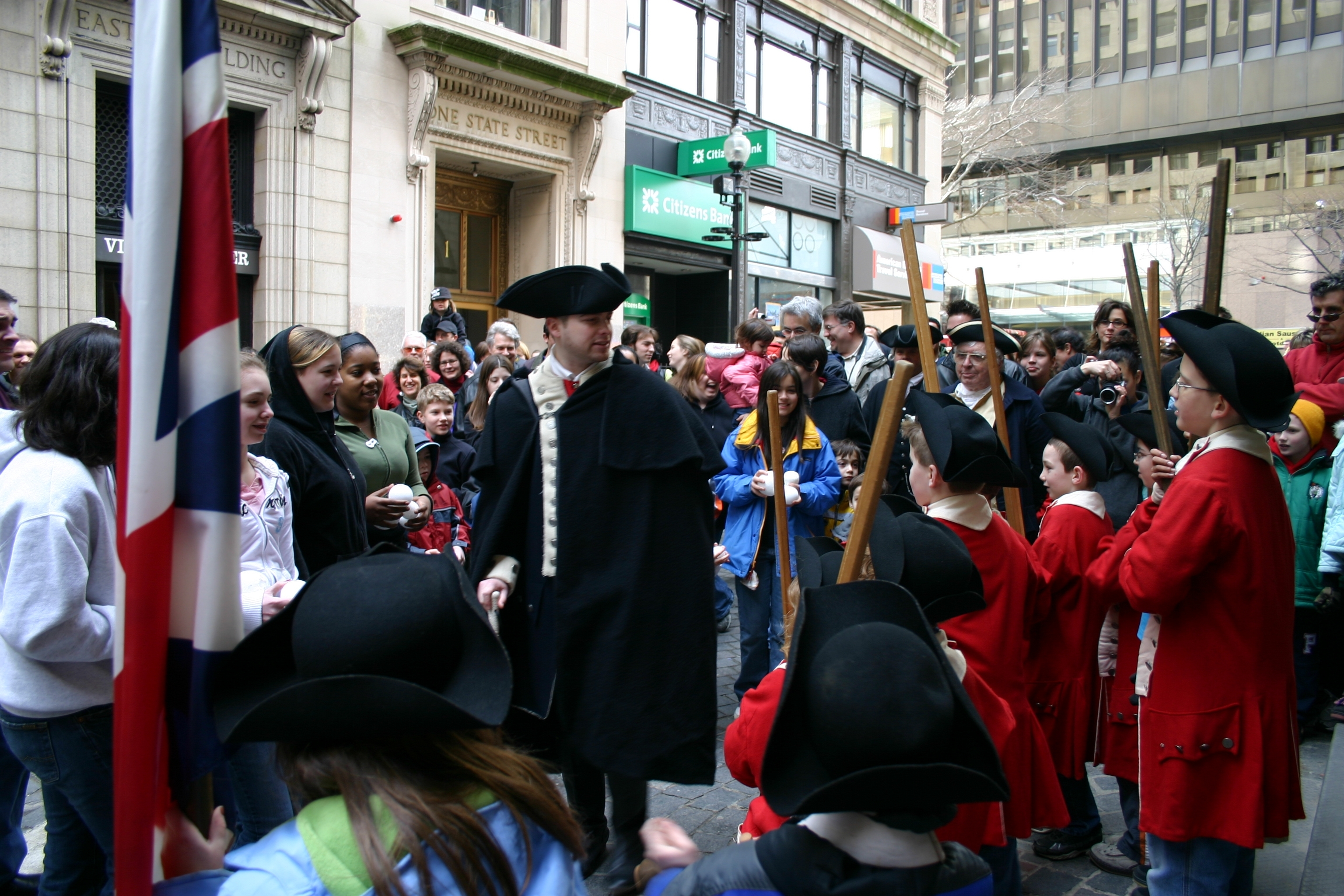 Captain Preston addresses his troops before the Massacre begins